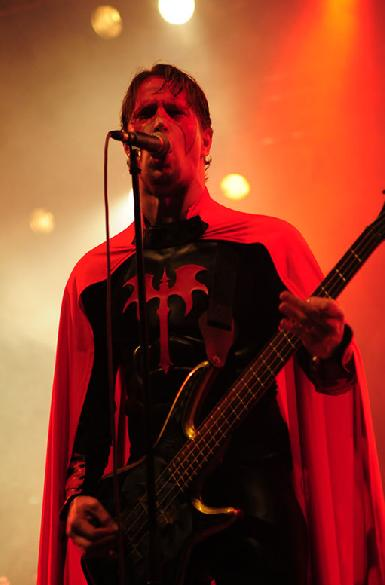 Grailknights, Mac Death, 2010